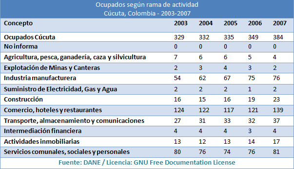 Ocuped people in Cúcuta, Colombia [2006-2007]